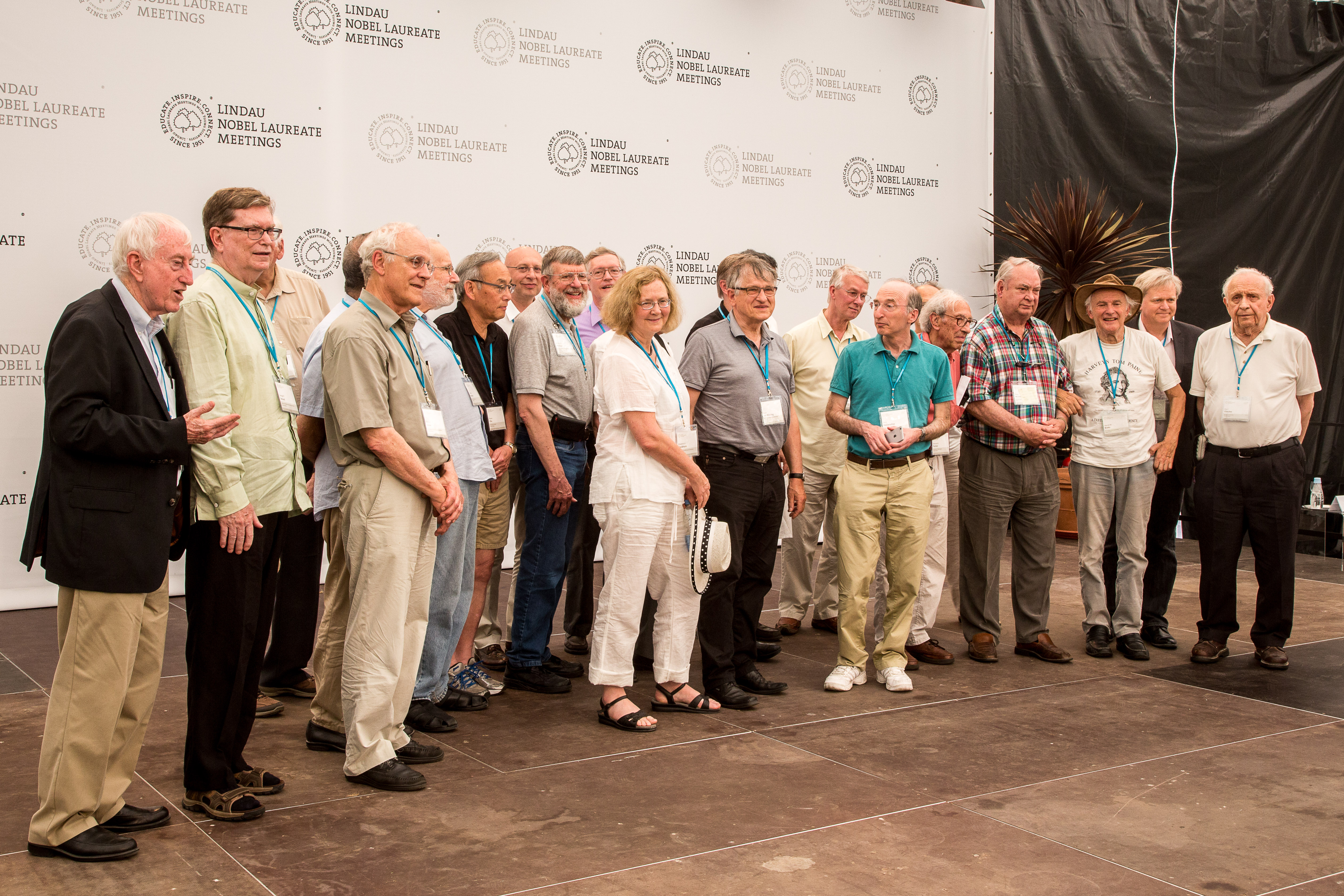 A group photo of some of the initial Nobel laureates who signed the Mainau Declaration 2015.